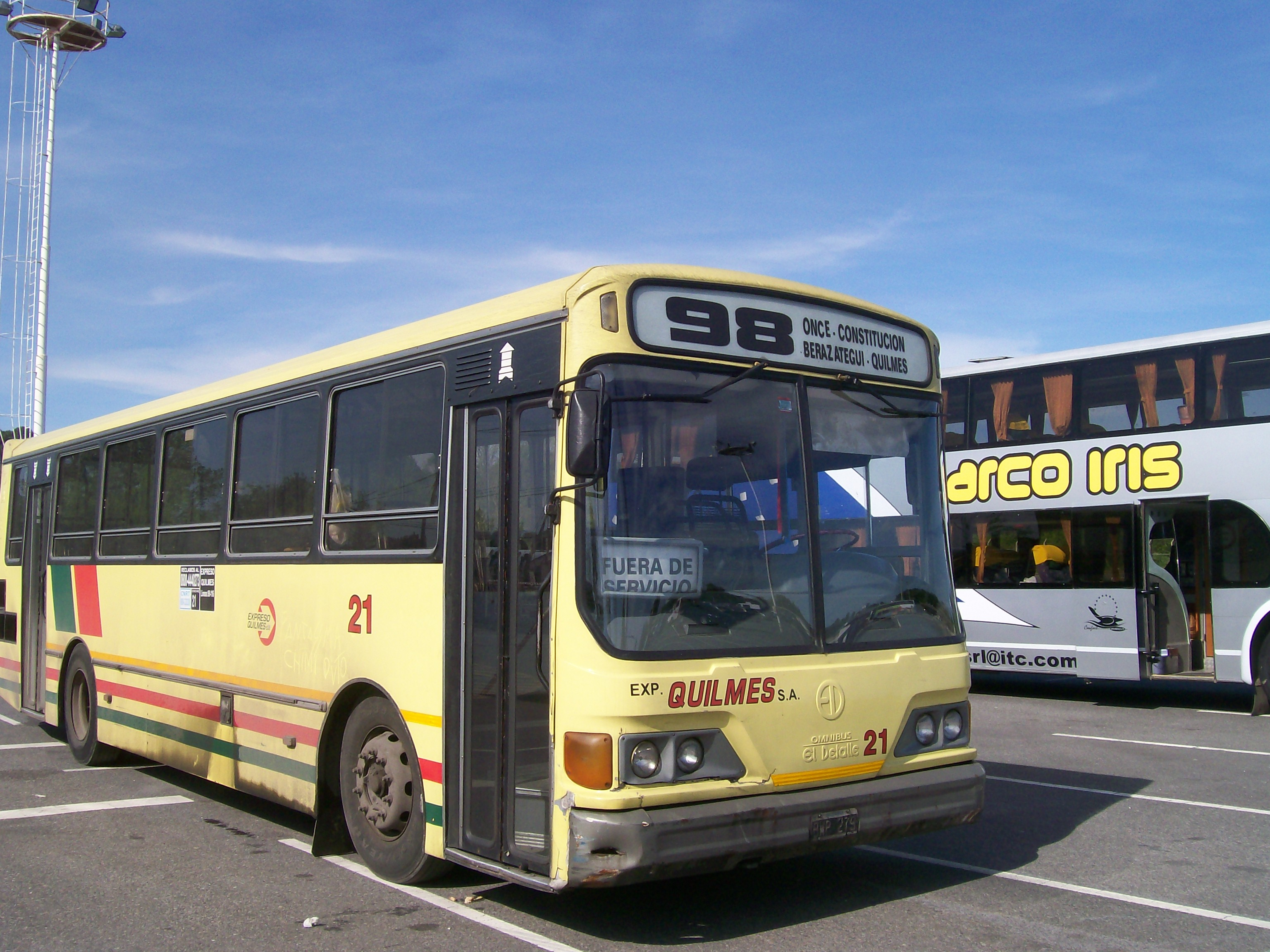 El Detalle bus (#21) in Buenos Aires or Buenos Aires Province, Argentina. Colectivo, line 98, Expreso Quilmes S.A. operator.